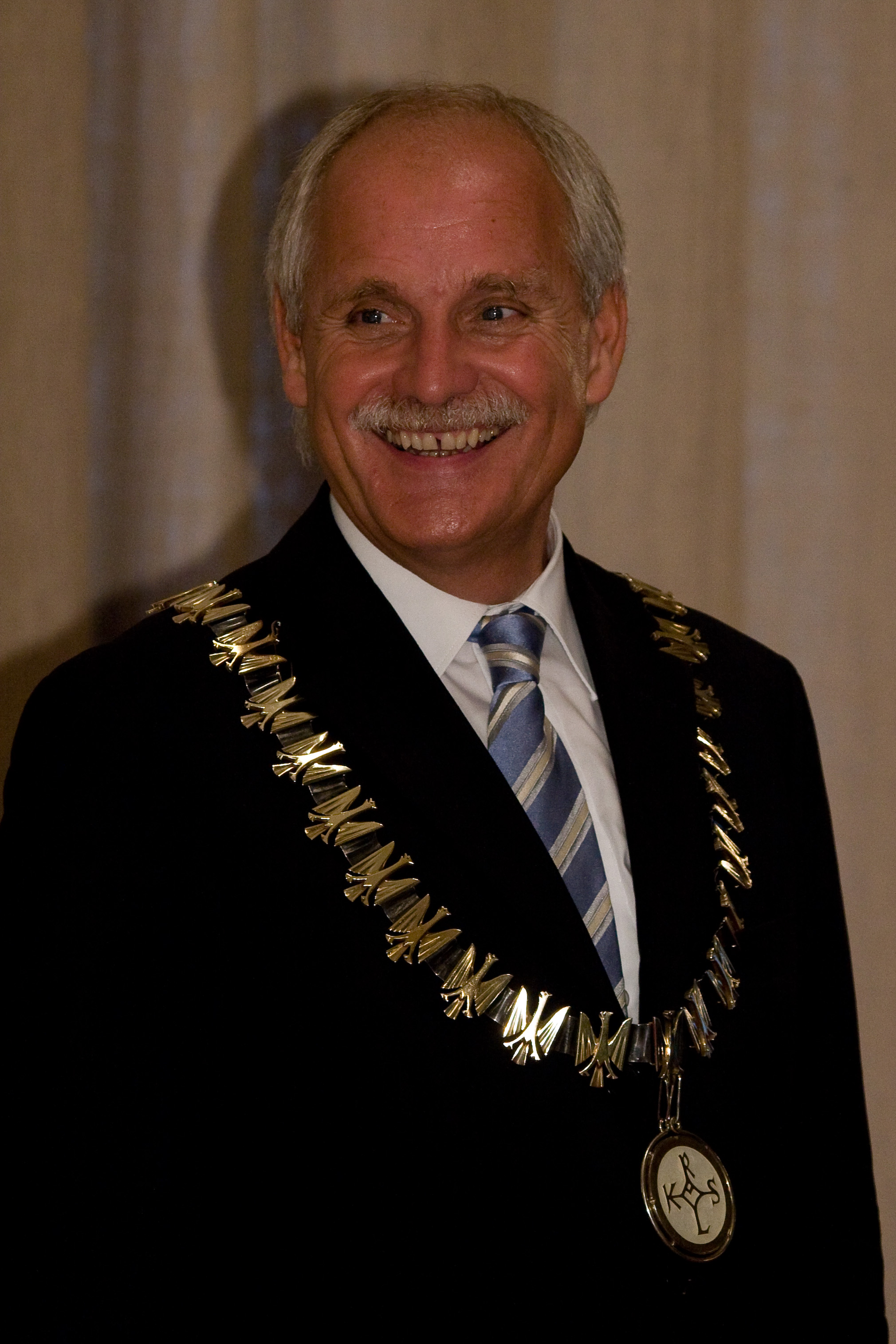 Jürgen Linden at the 20th anniversary of the Aachen-Naumburg city-partnership.